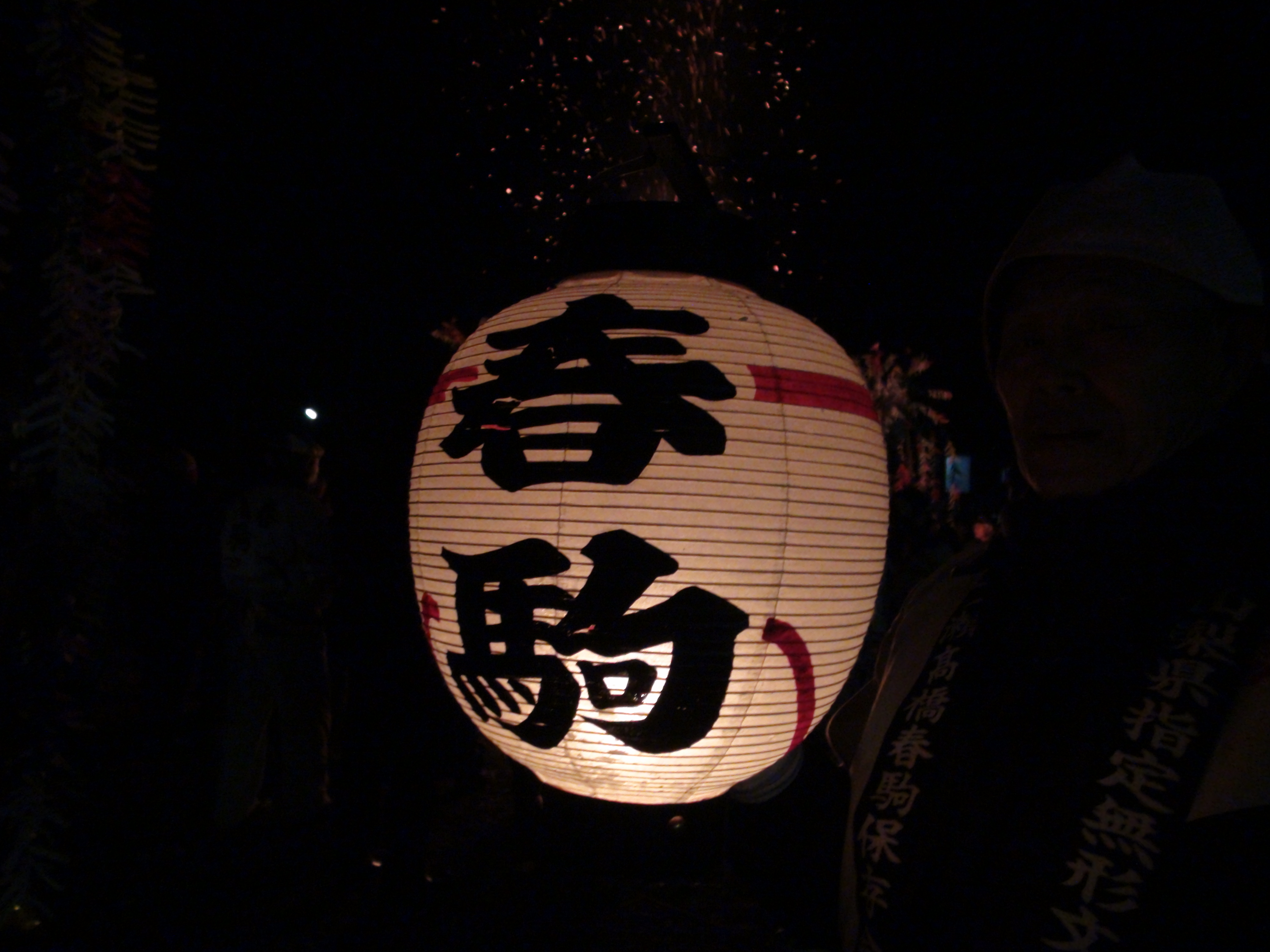 Ichinose Takahashi no Harukoma Paper lantern